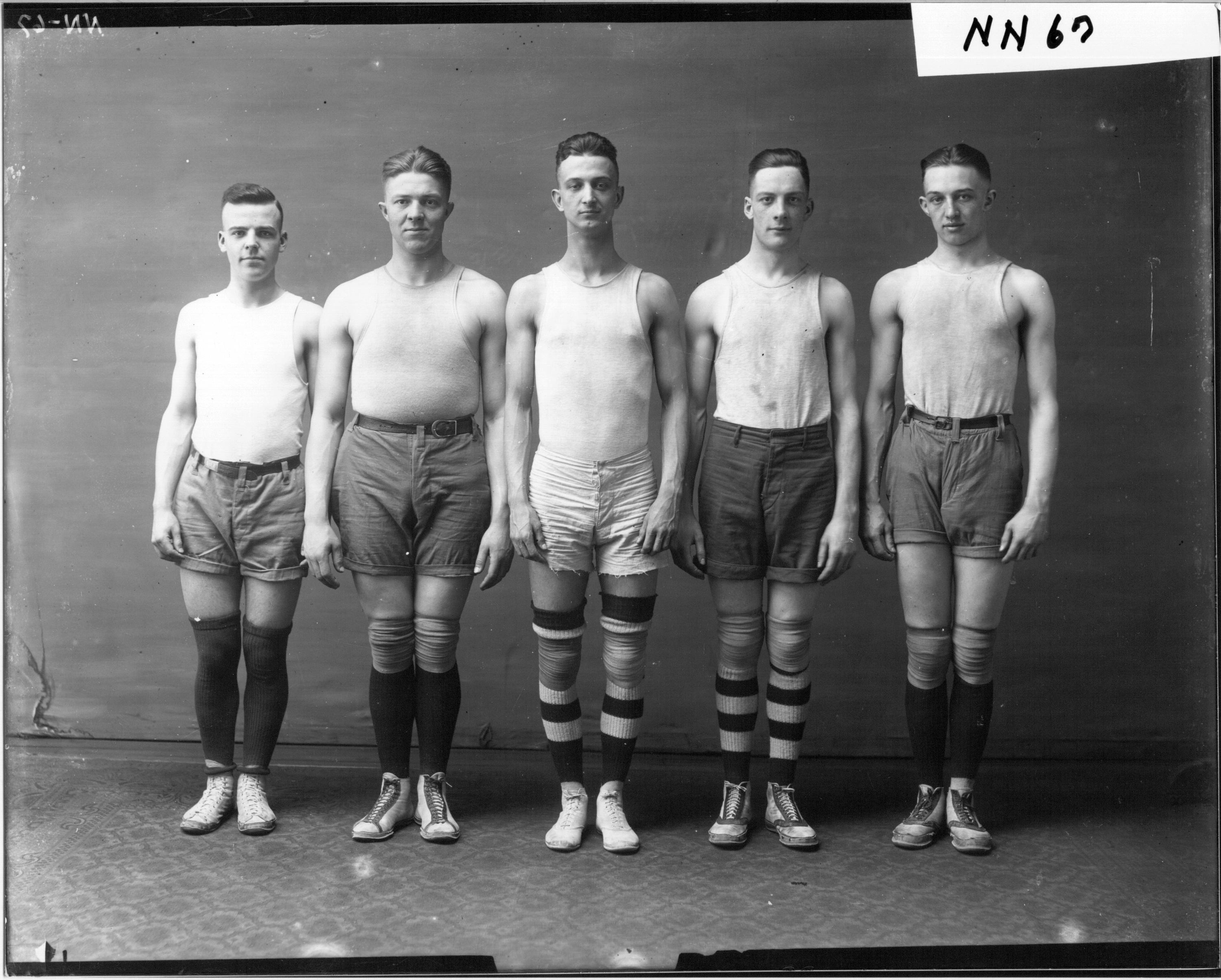 Persistent URL: Subject (TGM): Basketball players; Coaches (Athletics); Group portraits; Location: Oxford, Ohio Fourth from left is Cradle of Coaches member Earl 'Red' Blaik.